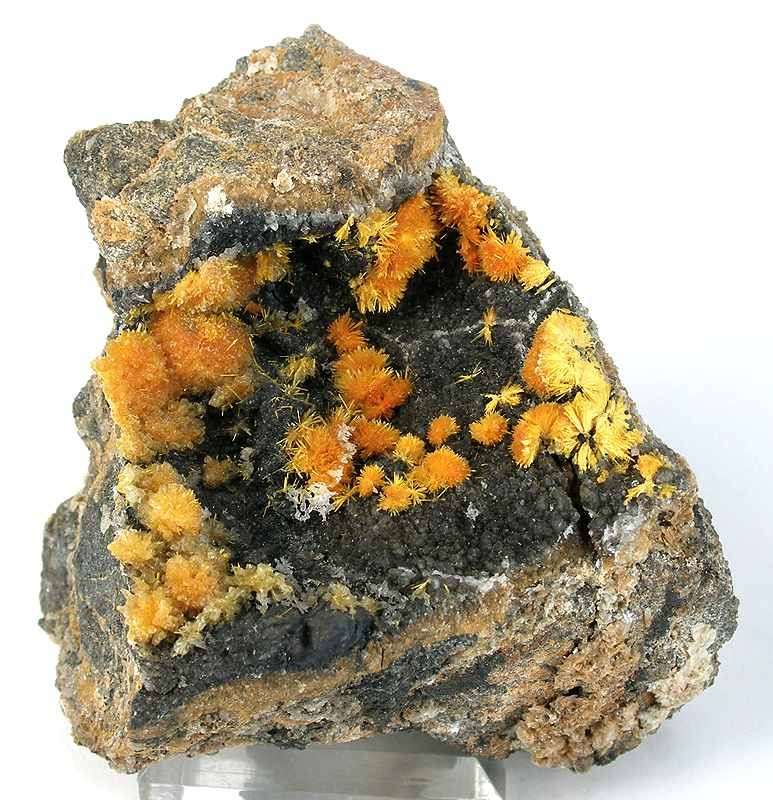 Boltwoodite Locality: Goanikontes Claim, Arandis, Swakopmund District, Erongo Region, Namibia (Locality at ) Size: 8.8 x 6.9 x 5.2 cm. A large boltwoodite specimen with fine crystals with excellent color and color contrast to the dark calcite beneath. The largest cluster here is 1 cm across.